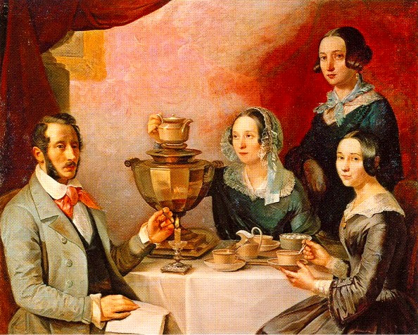 Family portrait. 1844. Canvas, oil. 115,3х143,3. Sisters Zagryazhskie: Varvara Andreevna (Belikova), Nadezhda Andreevna (Plechko), Sophia Andreevna (Chulkova); and Alexey Dmitrievich Plechko. For this work Myagkov was awarded by silver medal.